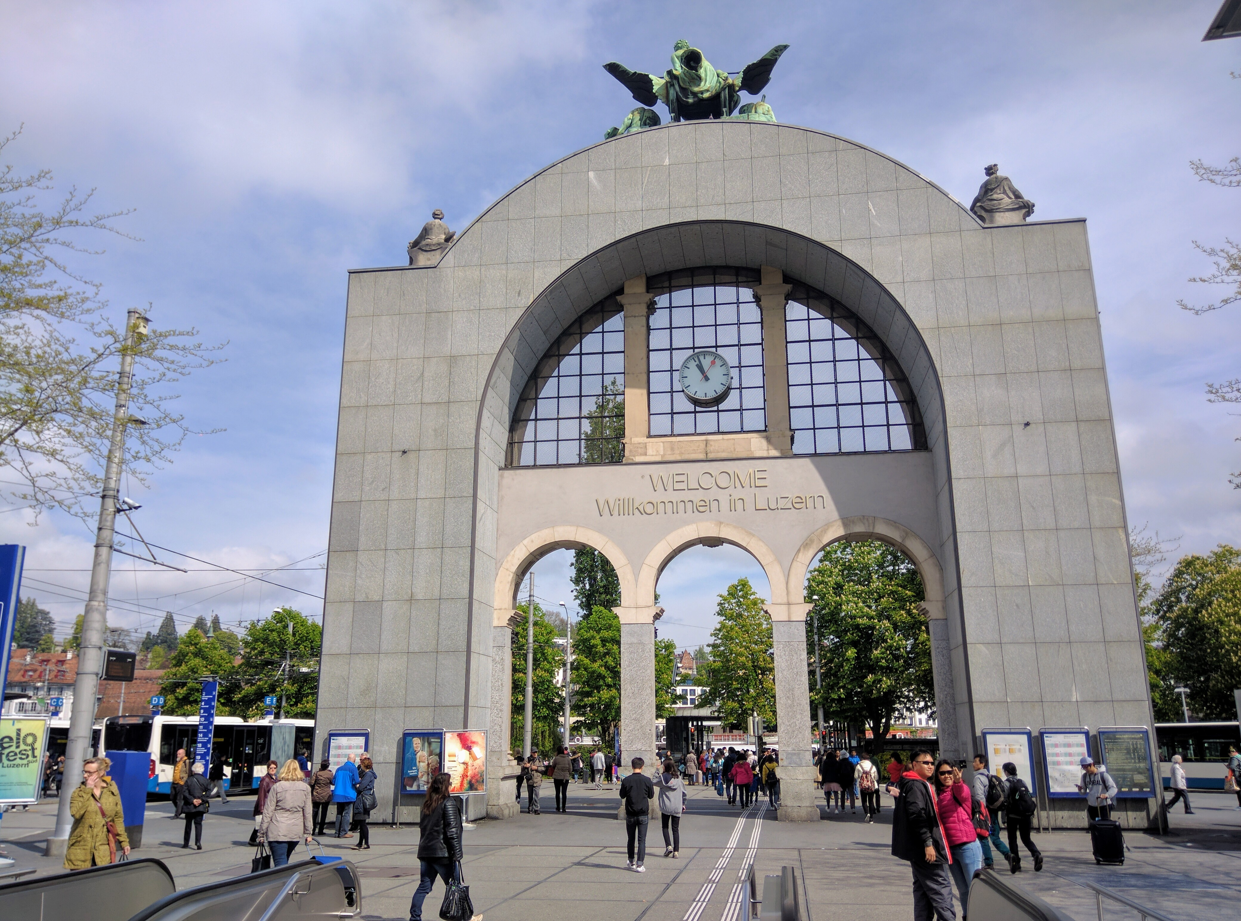 Luzern railway station